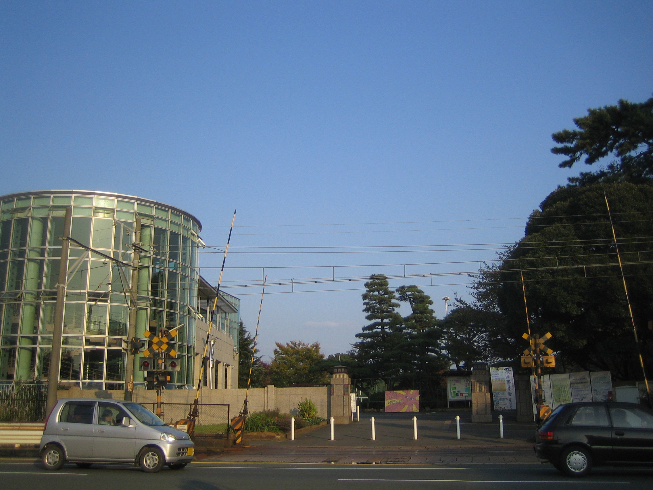 Aichi Daigaku-mae Station (愛知大学前駅), at Kitaoka, Toyohashi, Aichi, Japan